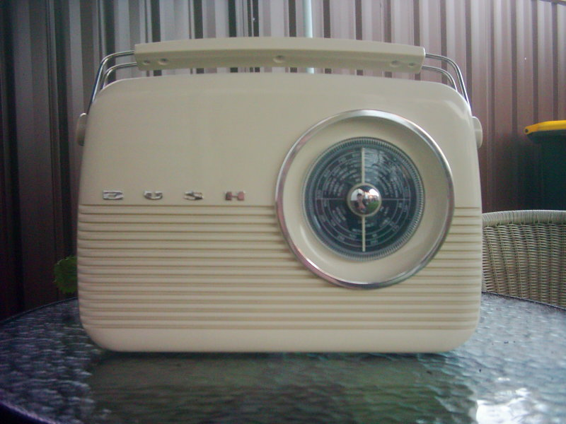 Bush Radio reproduction of 1959 TR82 transistor portable. A design icon of the early transistor radios.